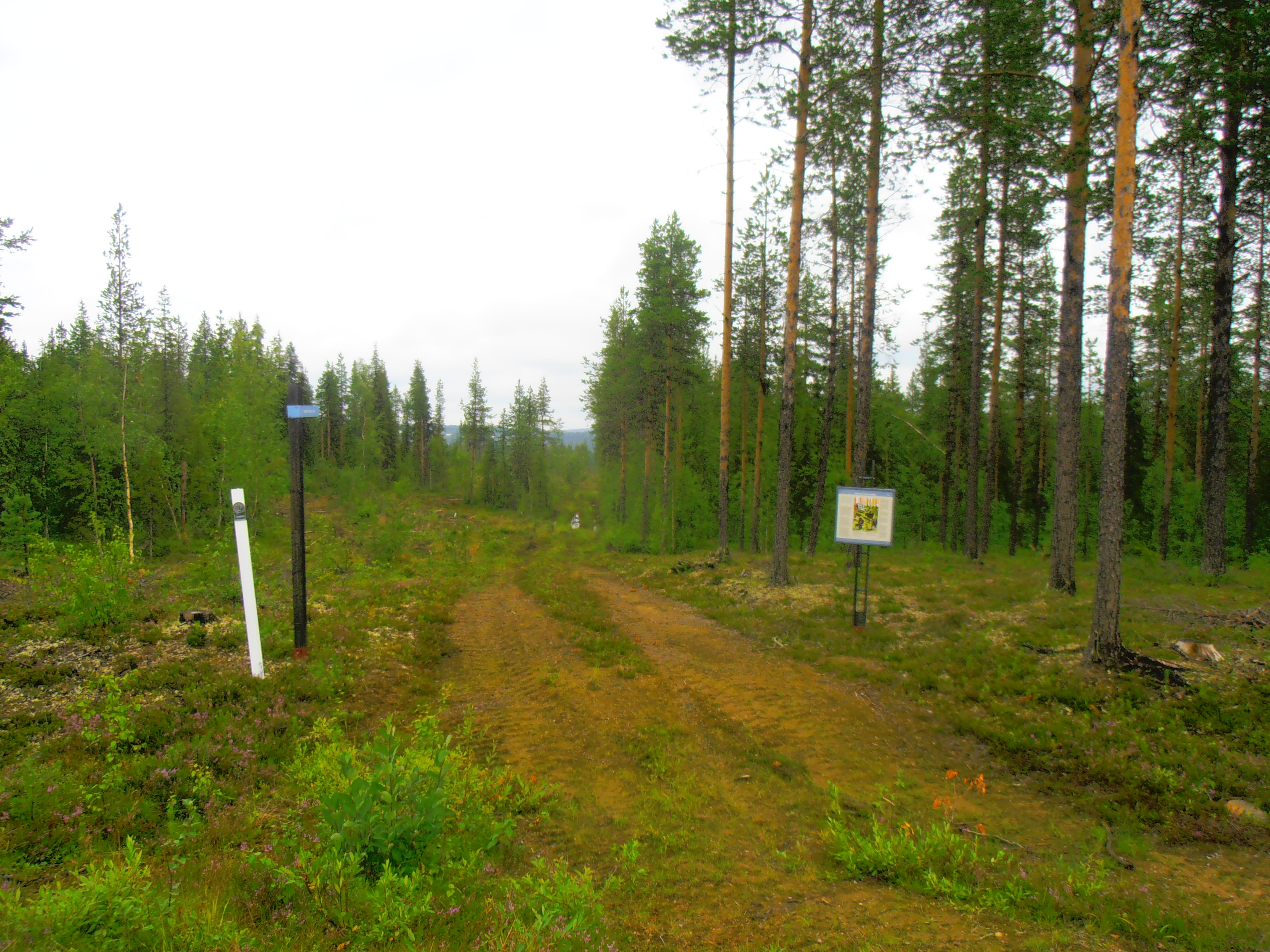 Path to Keinosuando, Nilivaara